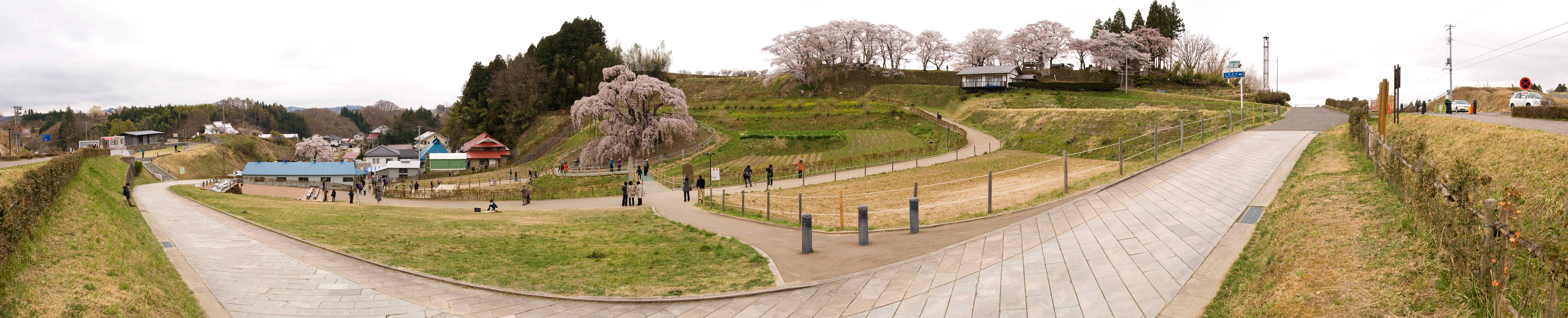 Miharu Takizakura, Miharu Town, Fukushima Pref., Japan.